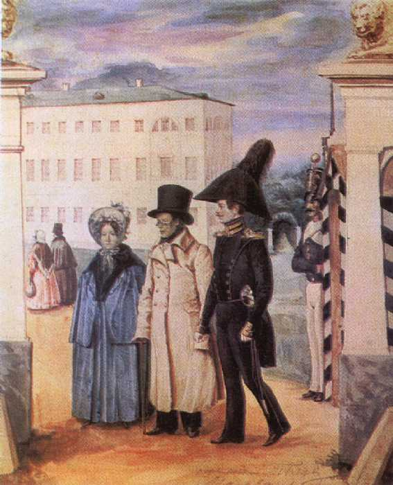 Group portrait: Pavel Fedotov in the uniform of an officer of the Life Guards Regiment of Finland, with his father and half-sister. 1837